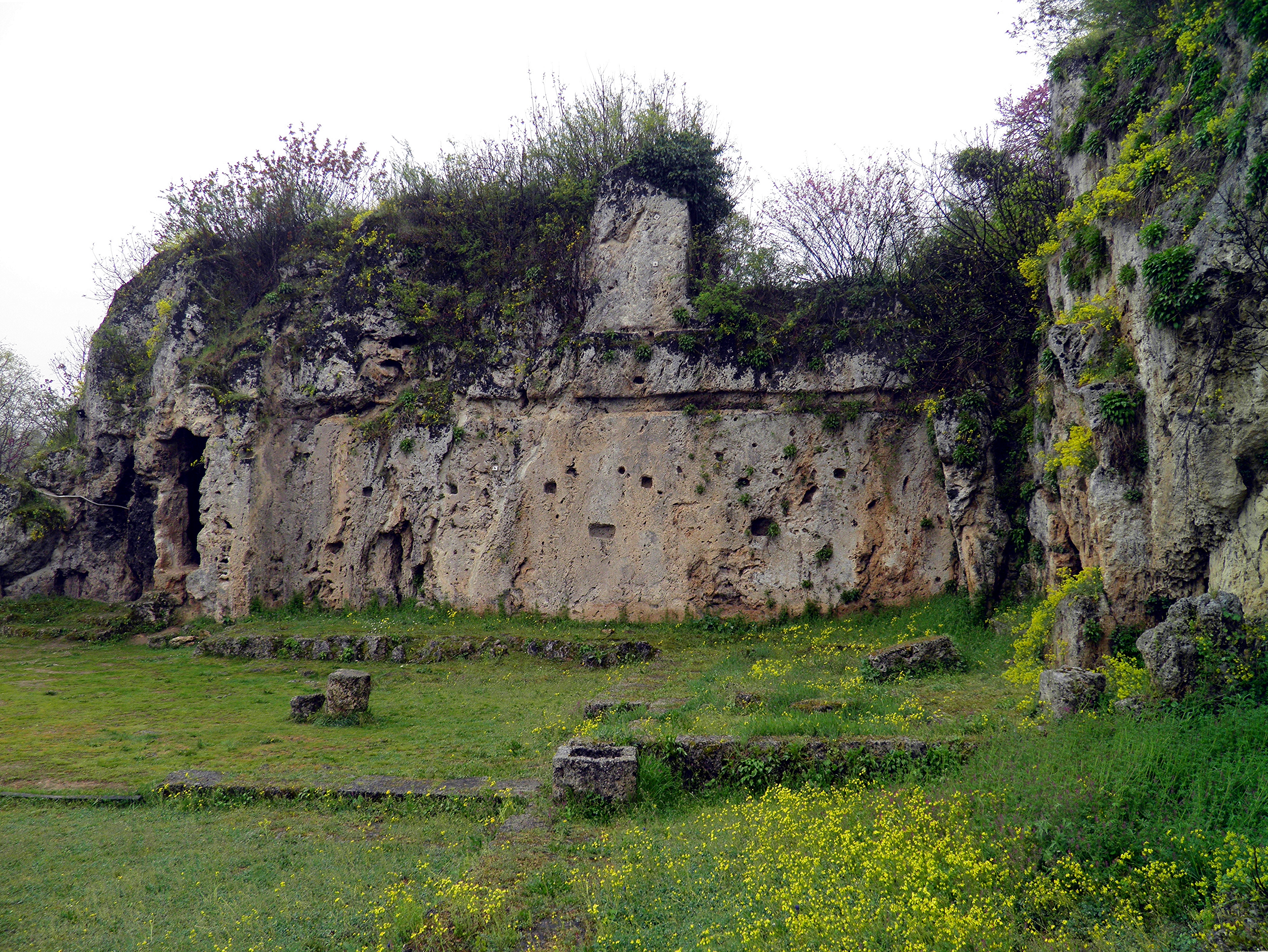 The area of the Nympheon, that is the sanctuary dedicated to the Nymphs, is a very impressive natural landscape, where the ancient remnants - a wall prop of a two-floored arcade with Ionic columns forming a Π- combined with the three natural caves which are found there, constitute the main grounds of the School. The vertical surface of the rock, where the openings for supporting the roof's girders are discernable, comprised the back-end of the shady stoa, (built at 350 B.C. and later), where Aristotle taught «the doctrines of morals and politics" (Plutarch VII, 668) to the youths of the Macedonian Nobility. The landscape, where the Great Teacher rambled with his students on the fully vegetation riverbank trails, among calm and cool streams of water, gushed from the springs around, is completed by an even greater cave, a little further off, with two carved entrances, obviously for devotional use.